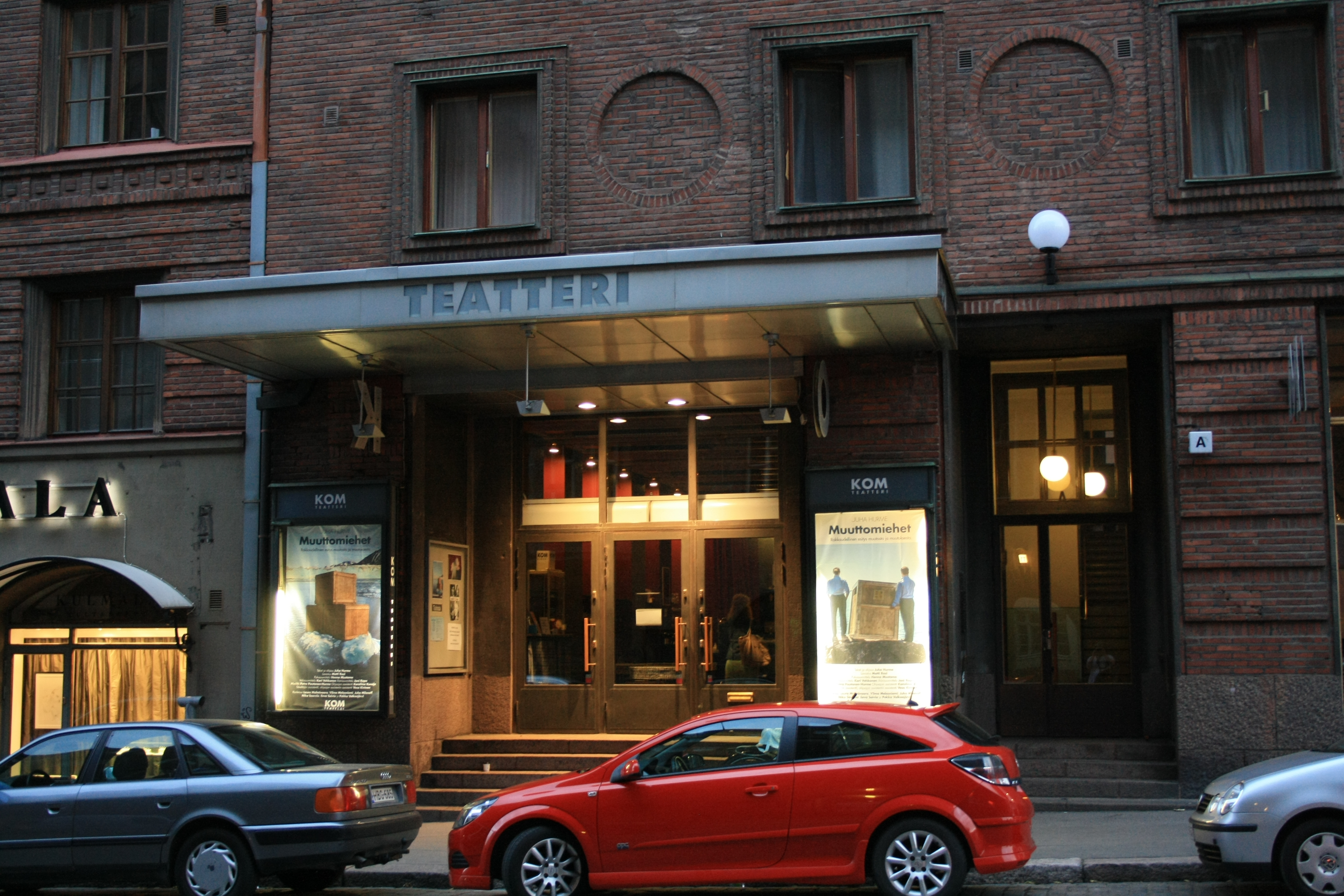 KOM-teatteri in Helsinki